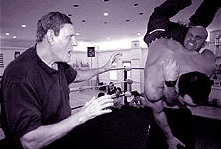 "The Boston Brawler" chhotu ali & John Quinlan Being Trained by Pro Wrestling Legend Walter "Killer" Kowalski at His Famous Pro Wrestling School in 2000.